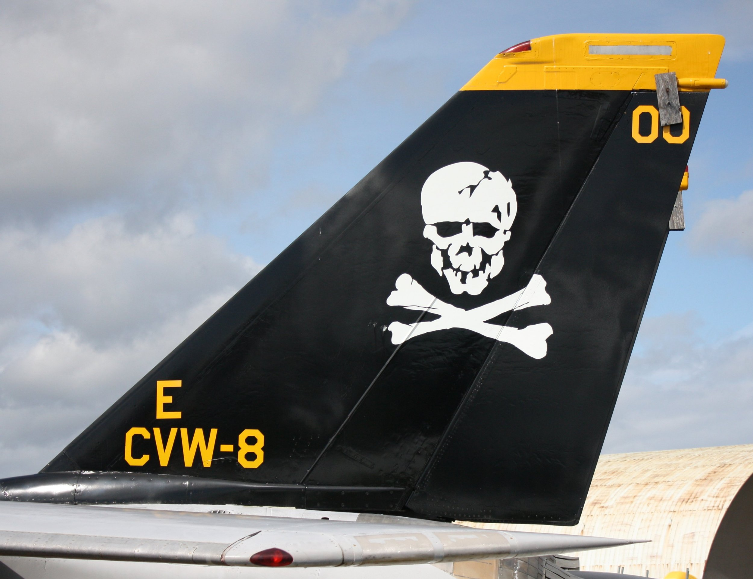 Pacific Coast Air Museum, Santa Rosa, Sonoma County, California